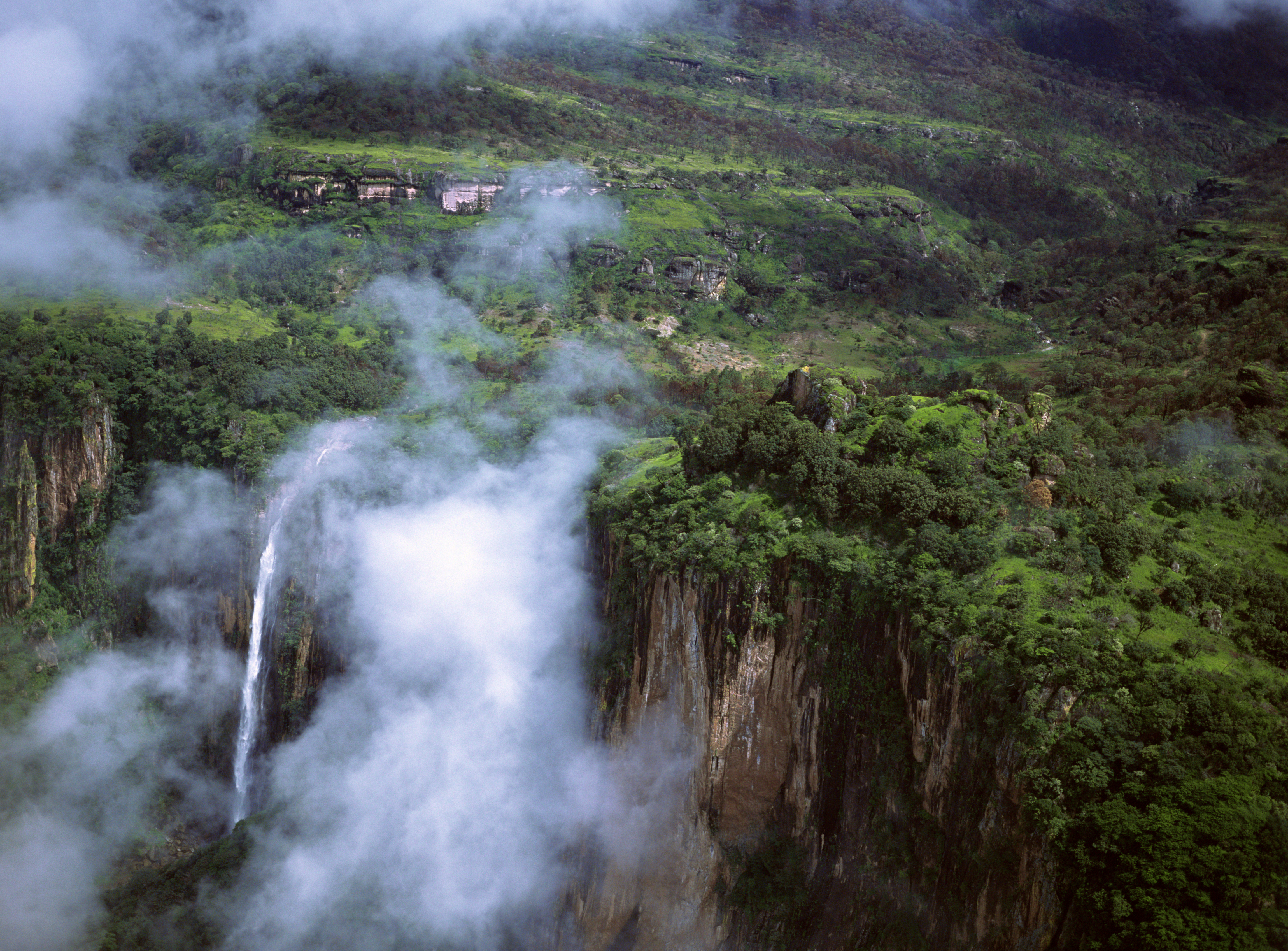 Luvianos Cañadas, Nachititla, State of Mexico